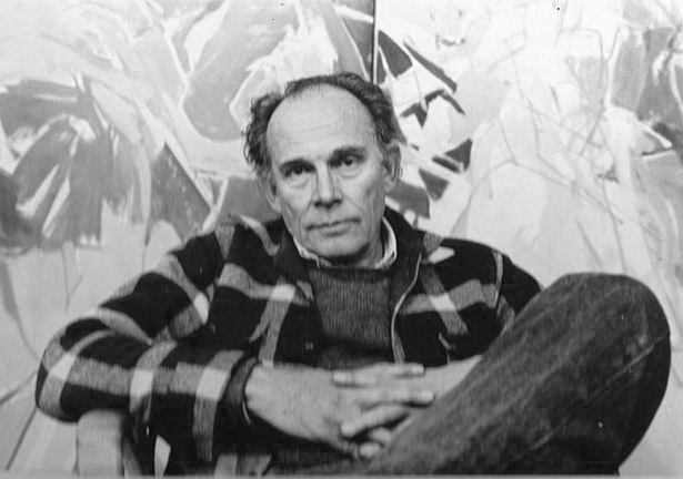 The artist Charles Cajori